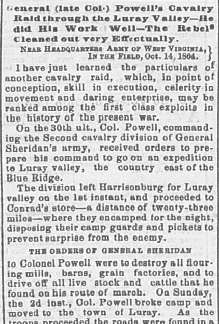 This is the beginning of a newspaper article that describes a raid made by Union Cavalry in Virginia's Luray Valley during October 1864 as part of the American Civil War.